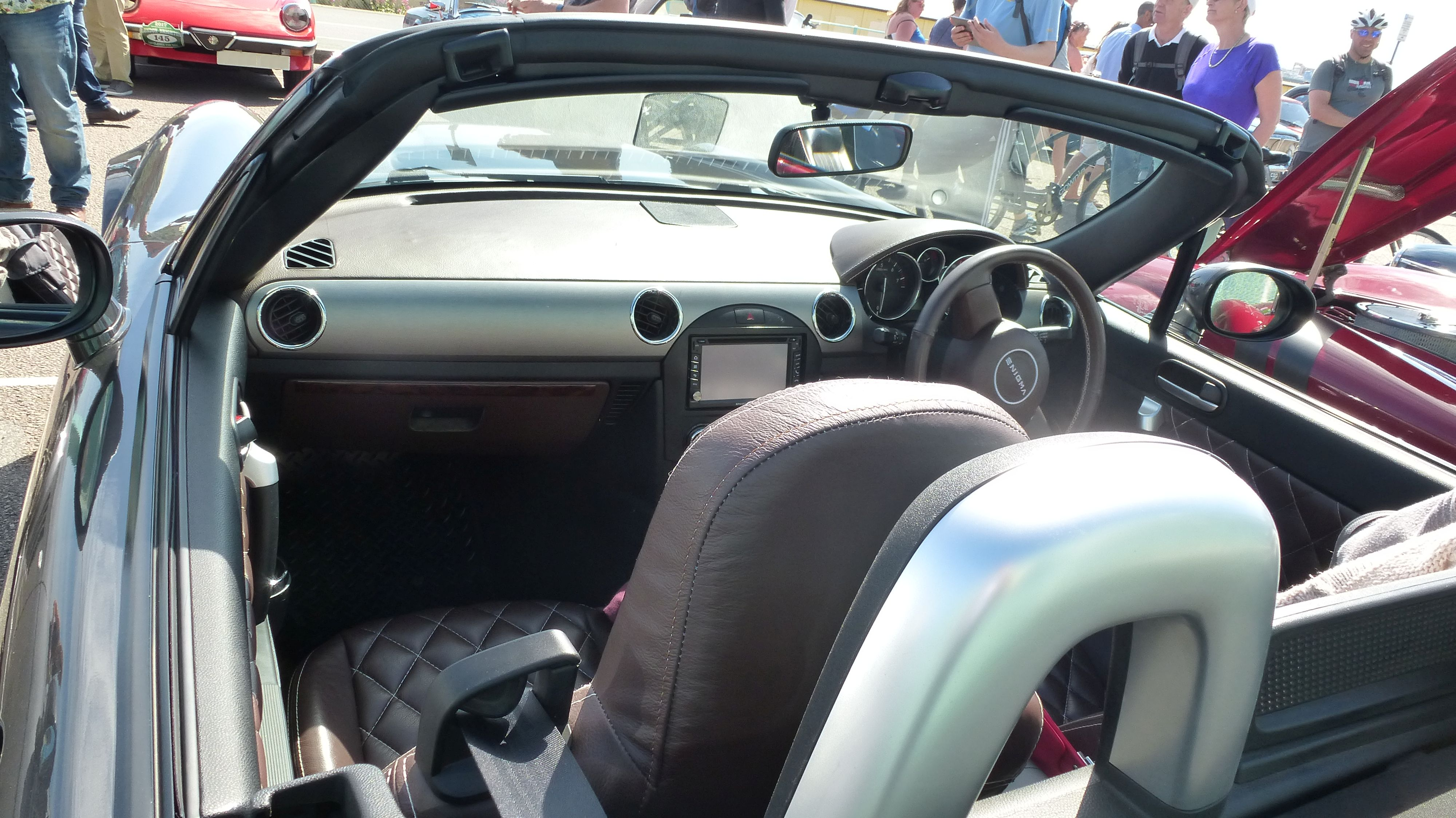 Healy Enigma Interieur